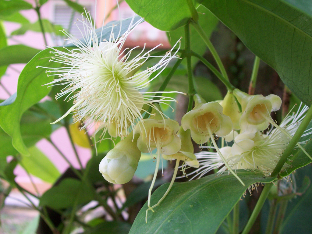 Syzygium aqueum (Burm. f.) Alston (Myrtaceae) Captured behind Science Nuclear Building